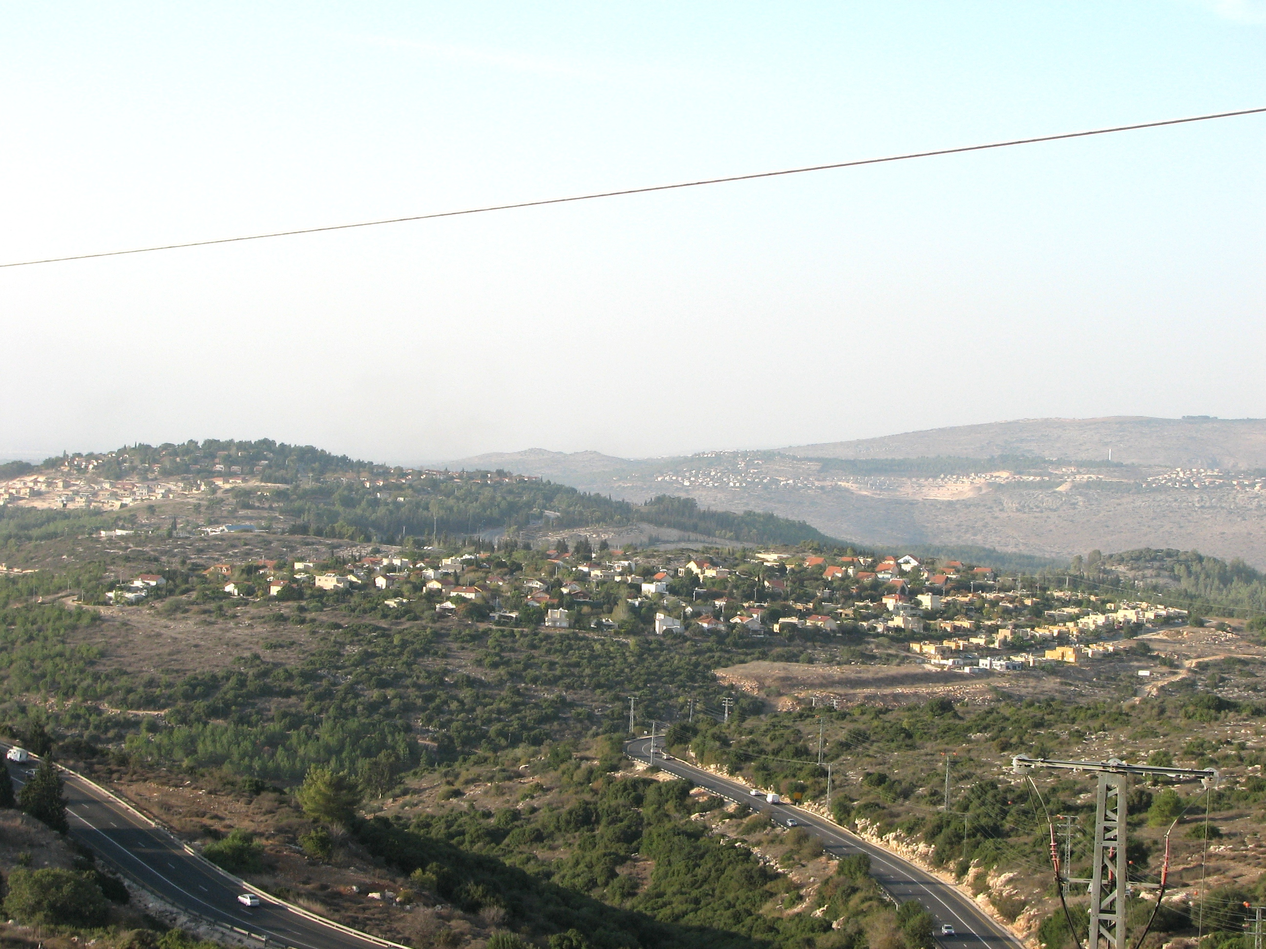 Rakefet - is a communal settlement in northern Israel. Located in the Lower Galilee Israel